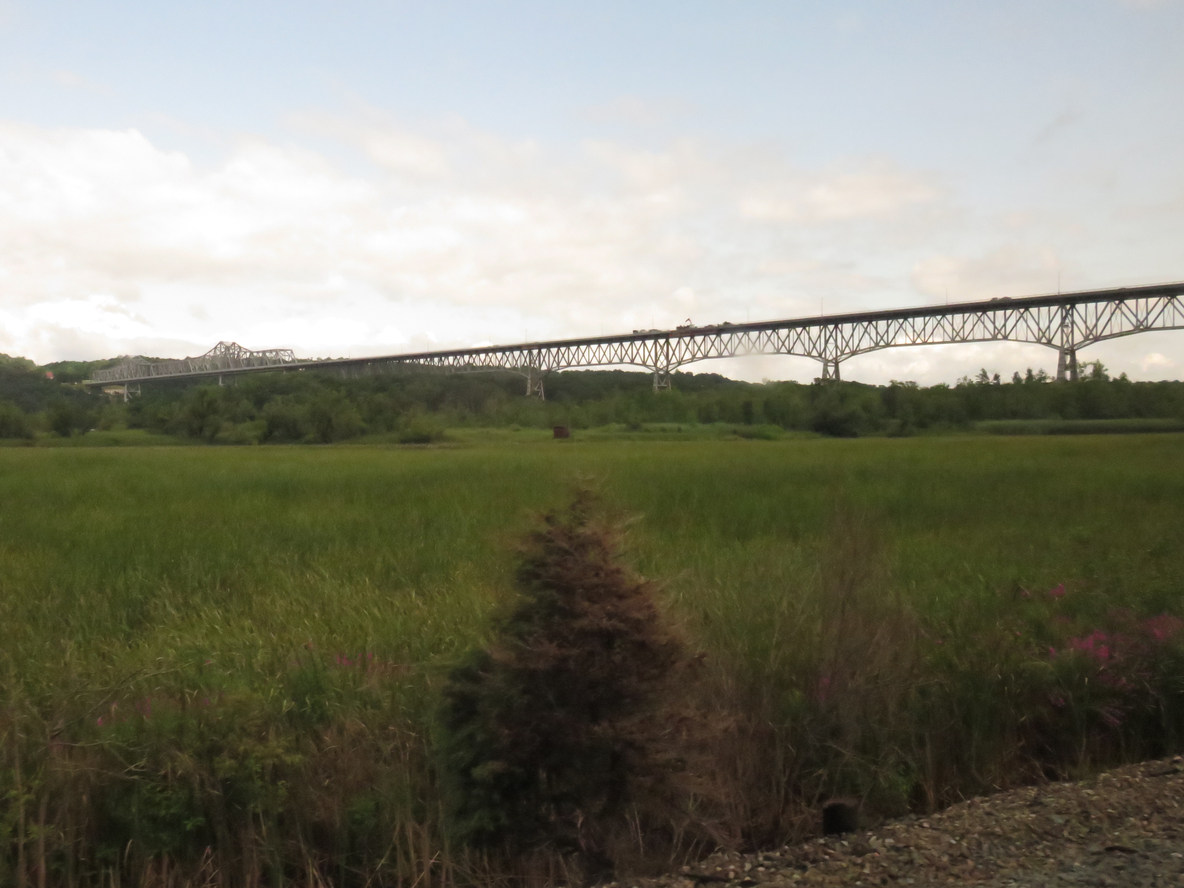 Rip Van Winkle Bridge from the Adirondack Amtrak train in 2017